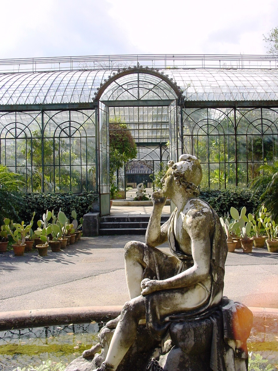 Nunzio Morello, fountain of Paris (1838). Palermo, Botanical Garden. Sicilianu: Nunziu Morello, funtana di Pàridi (1838). Palermu, Ortu Butànicu.